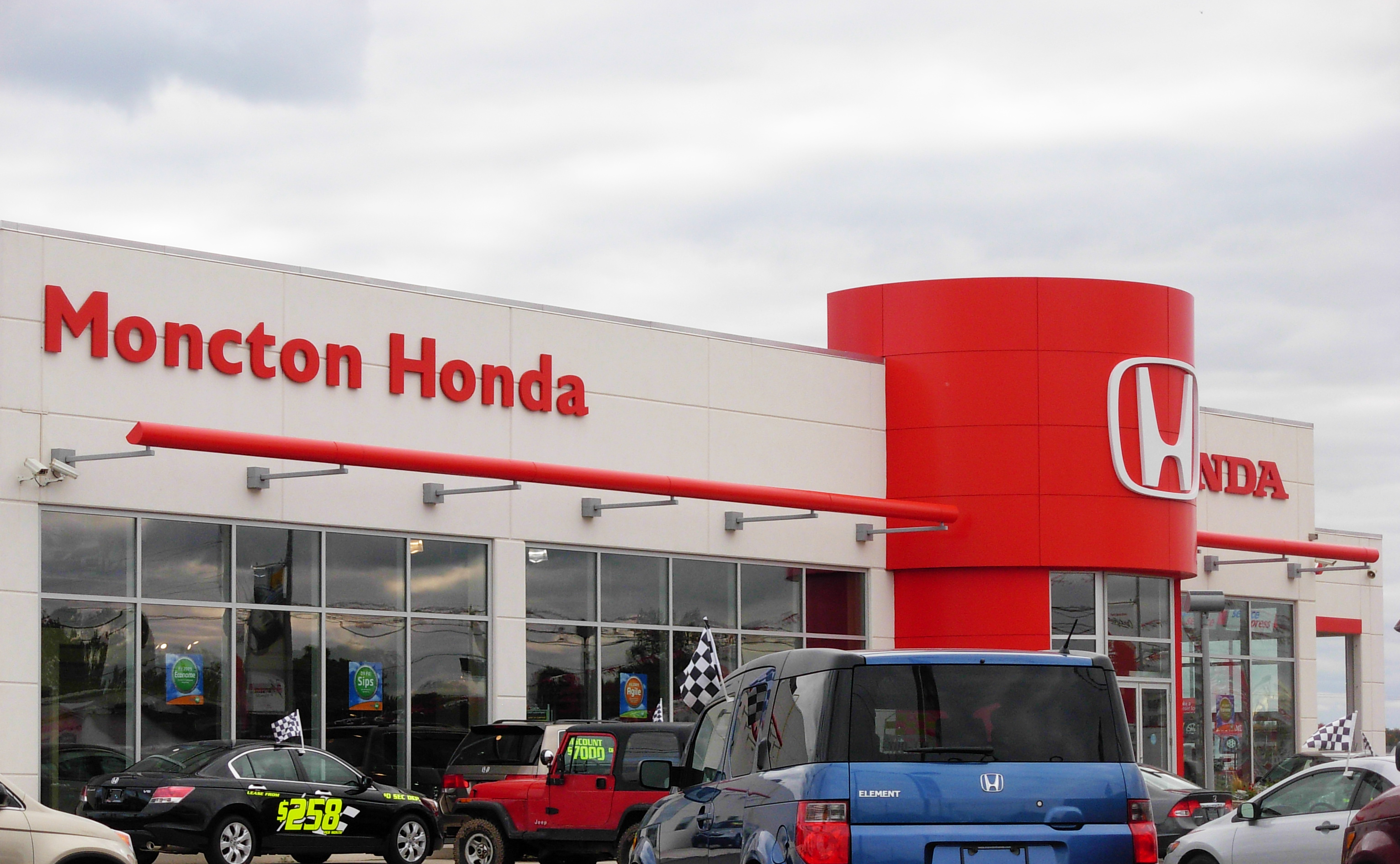 A Honda dealer in Moncton